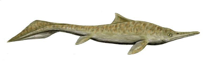 Mixosaurus cornalianus, an ichthyosaur from the Middle Triassic, pencil drawing